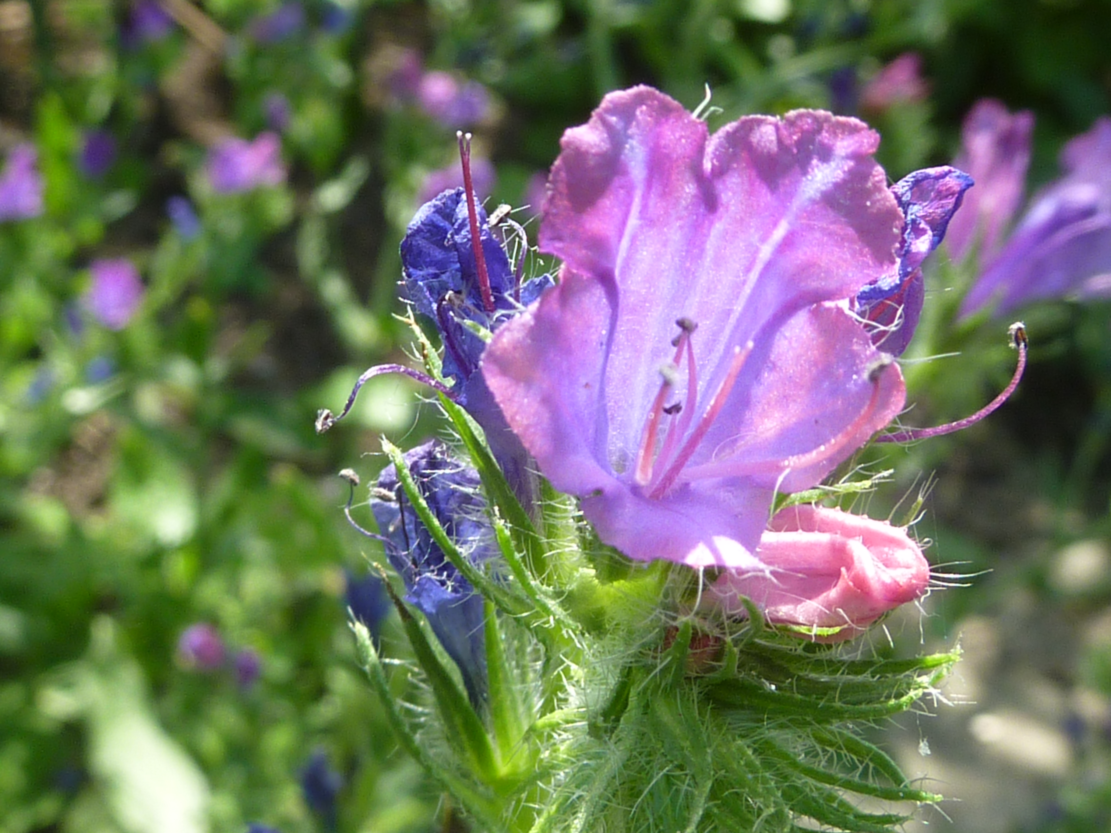 Taken in the Cambridge University Botanic Garden